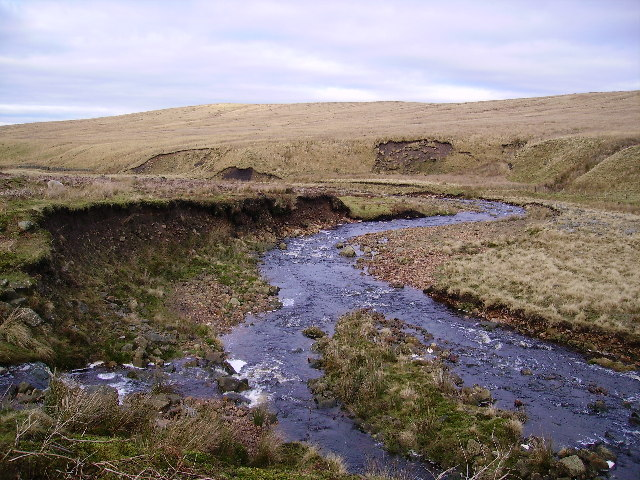 Bushy Clough meets River Roeburn. They must be having an affair as they picked a remote spot to meet, no one about.